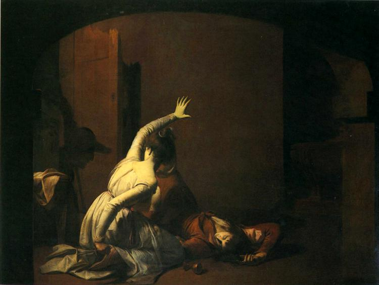 Joseph Wright of Derby. Romeo and Juliet. The Tomb Scene. "Noise again! then I'll be brief". exhibited 1790 and 1791. Oil on canvas. 177.8 x 241.3. Derby Art Gallery, Derby, UK.